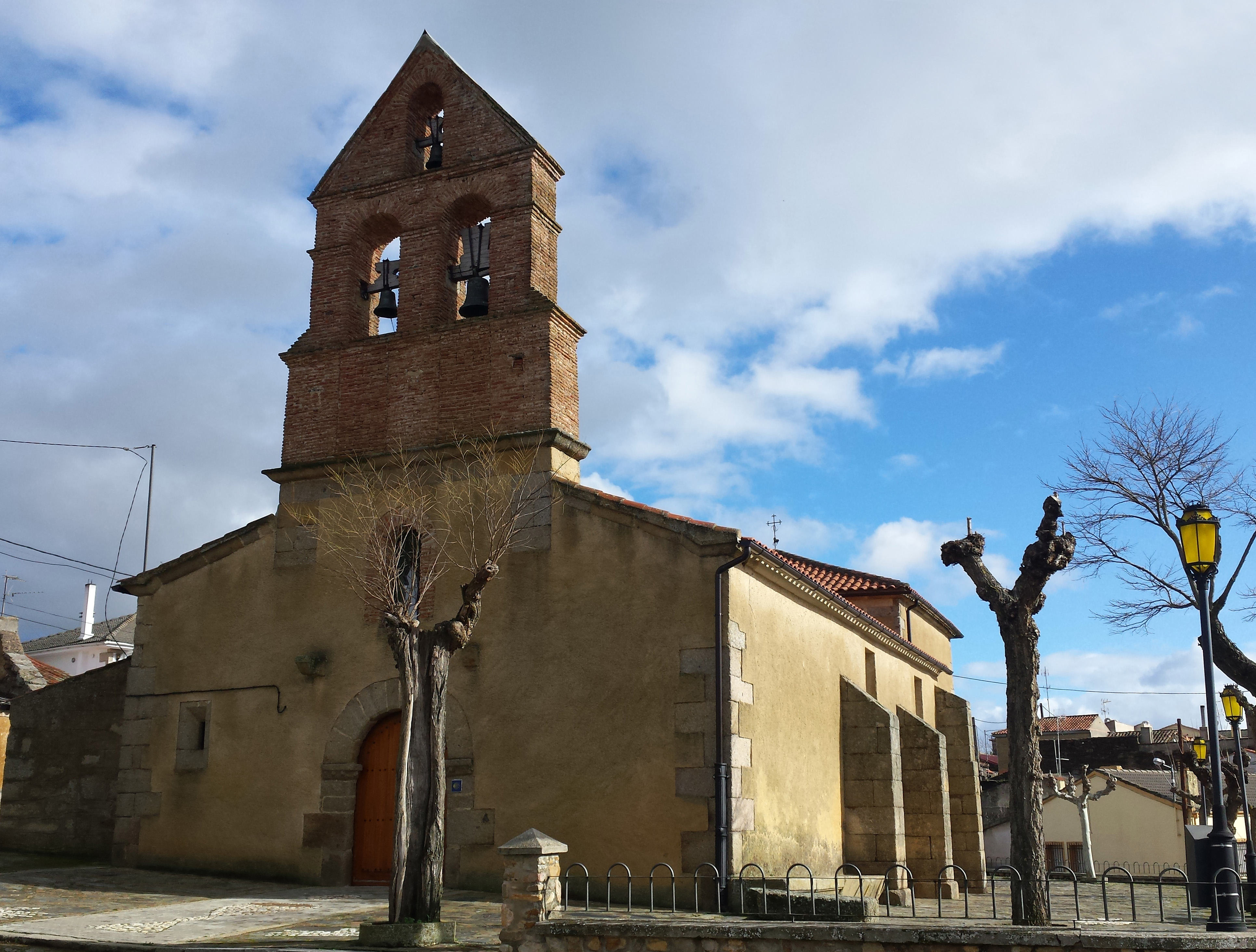 Church of Saint John the Evangelist in Castillejo de Martín Viejo. Salamanca, Spain.